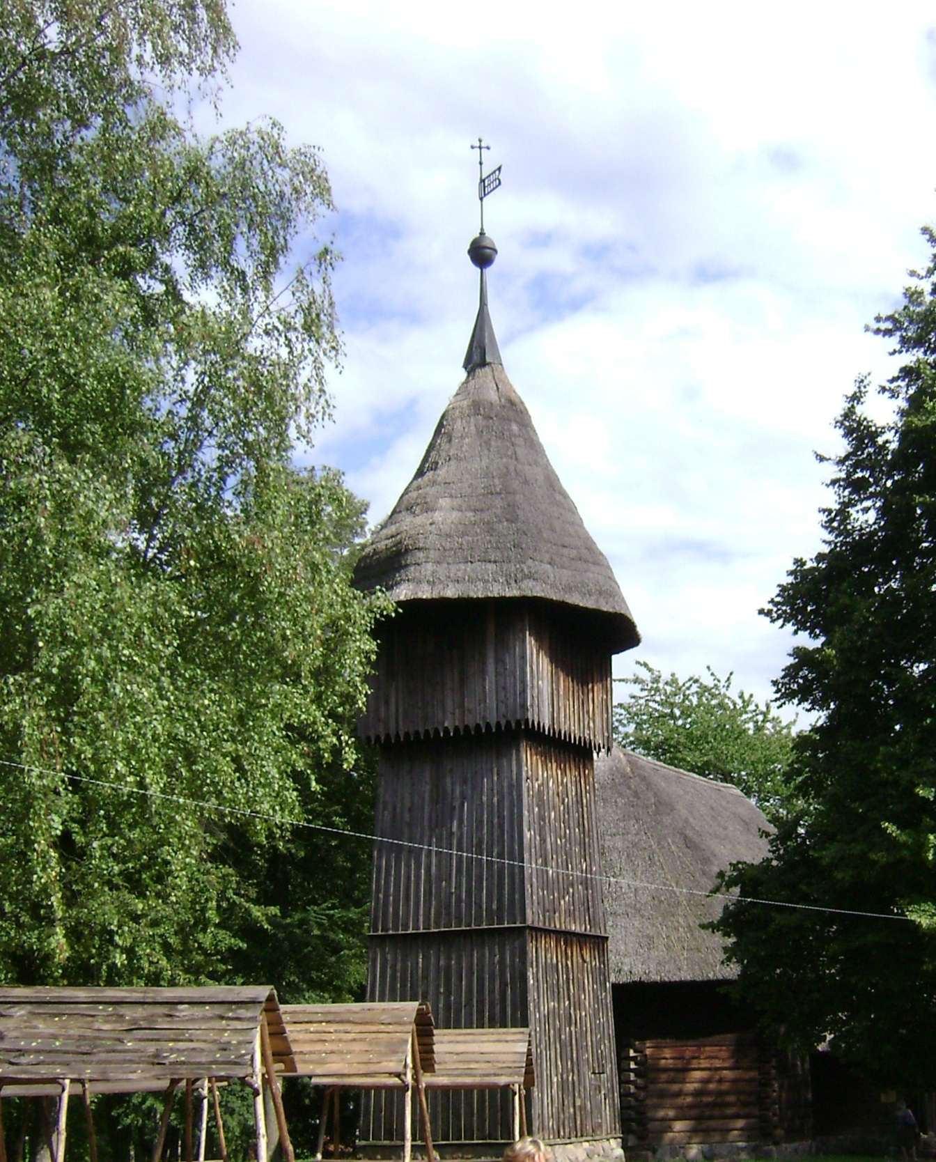 Poland. Olsztynek. Open air museum. (Skansen).